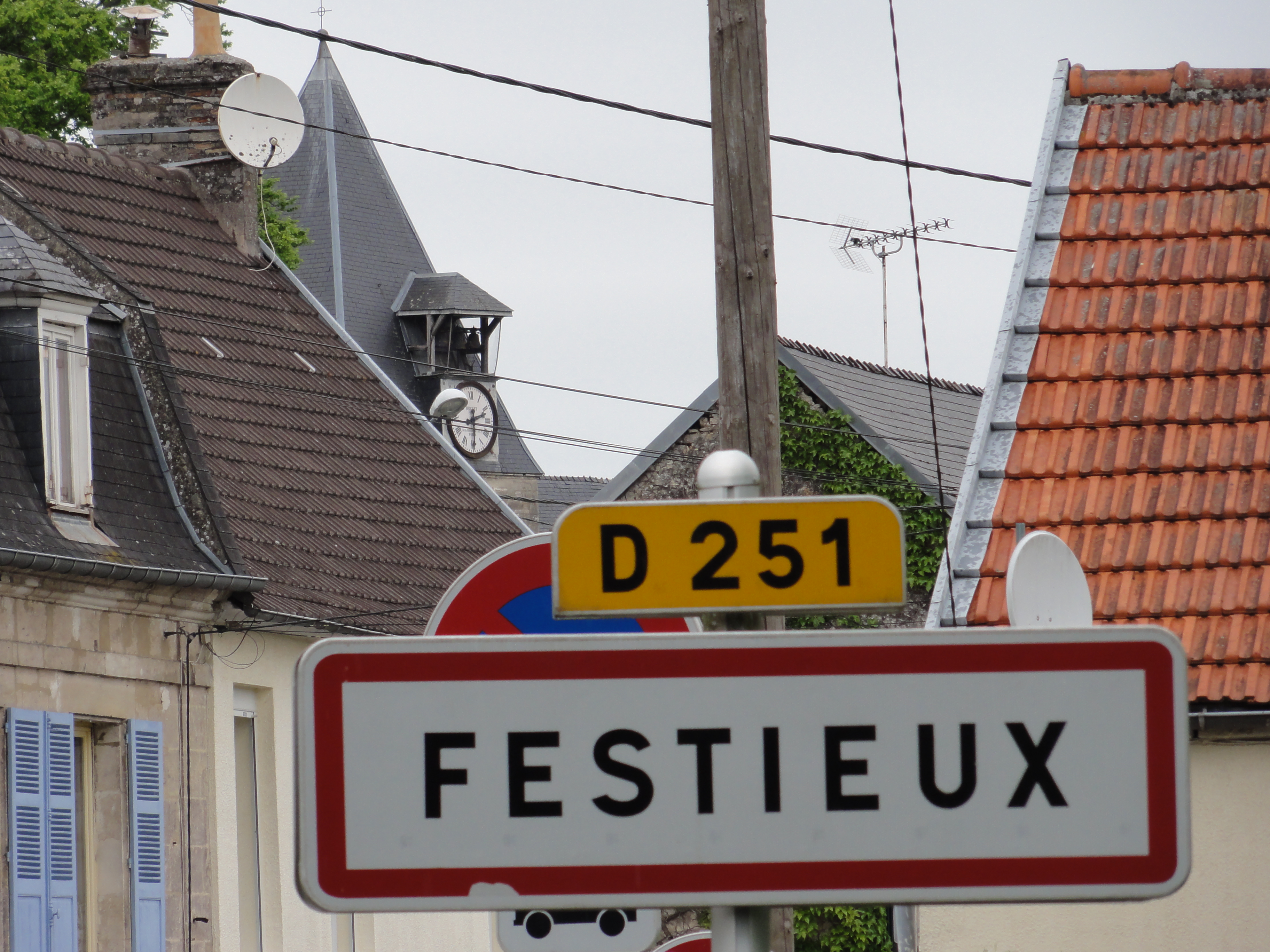 Festieux (Aisne) city limit sign